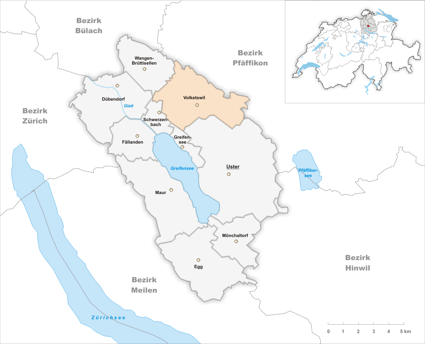 Municipality Volketswil